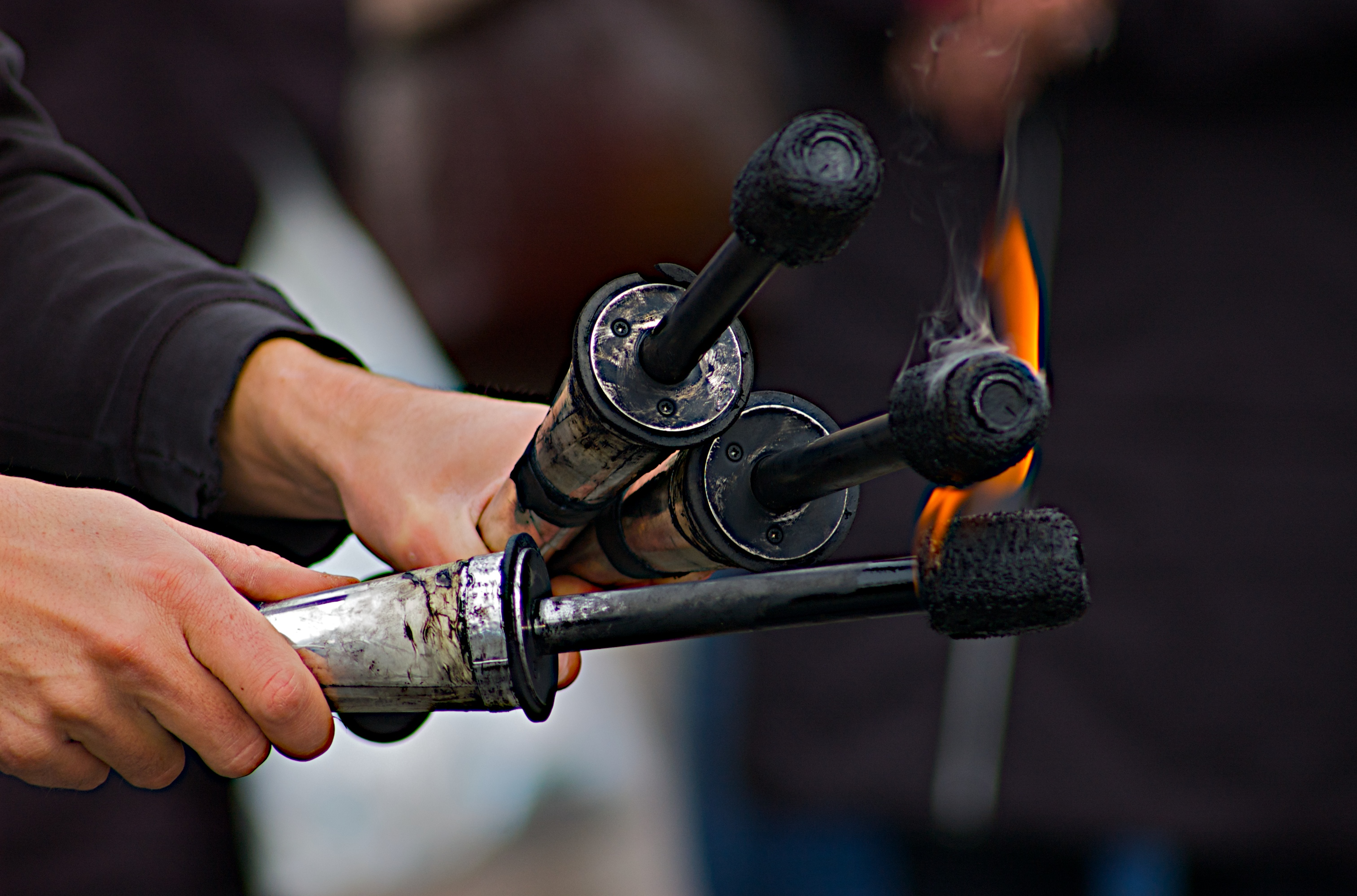 Juggling torches